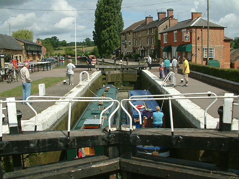 Narrowboats in the top lock of the Stoke Bruerne flight. The canal museum is the furtherest building of those on the right and is housed in a corn mill which closed in the early 20th century. The middle of the row used to be workers cottages, originally for the corn mill and then canal employees, but are now holiday cottages. The nearest on the right was for many years a shop catering for the needs of boating families, and now houses a restaurant. Photograph by Stephen Dawson, 10 July en:2004